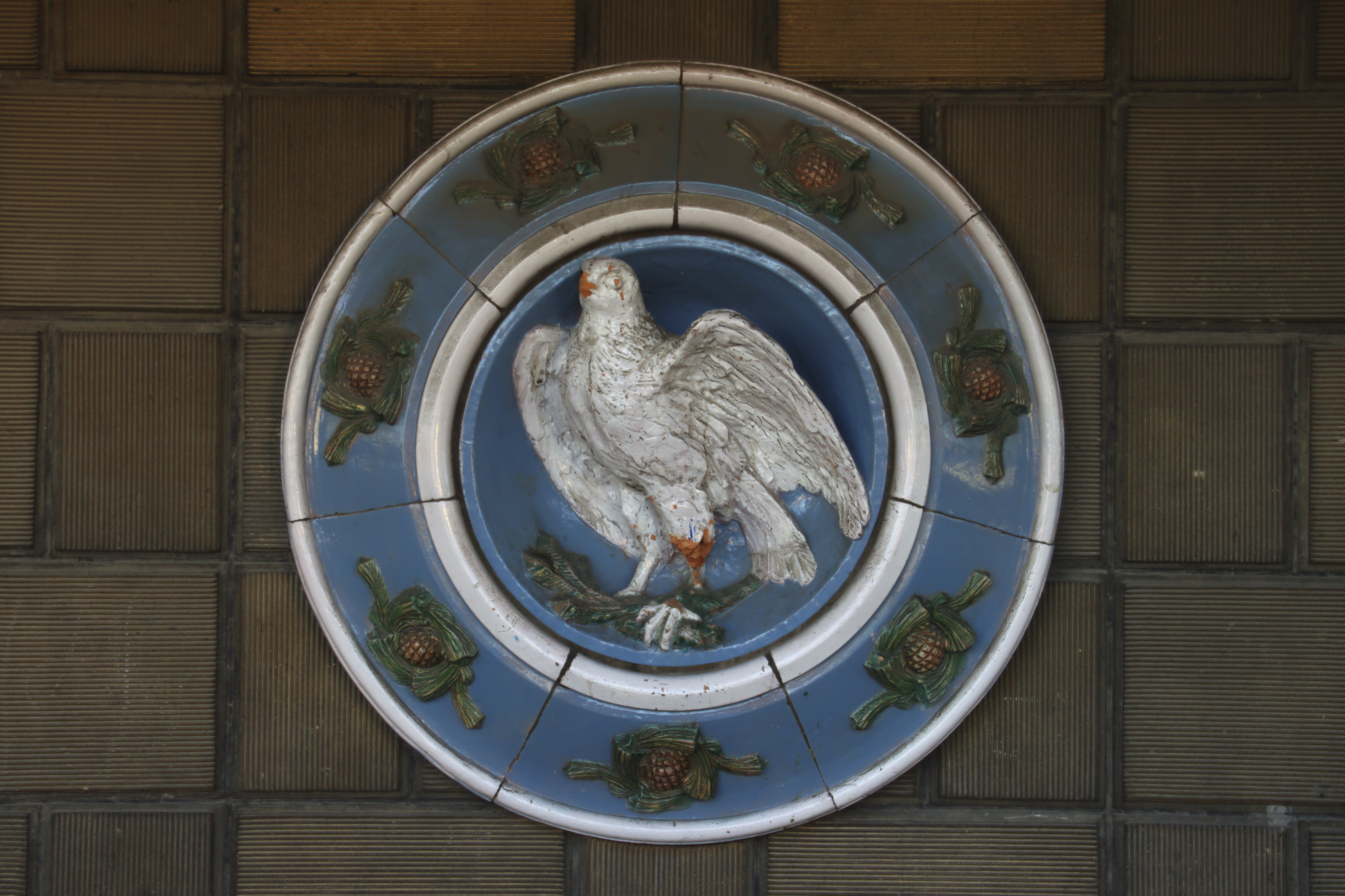 A sign at the enterance to one of the apartment blocks in Kladno-Rozdělov